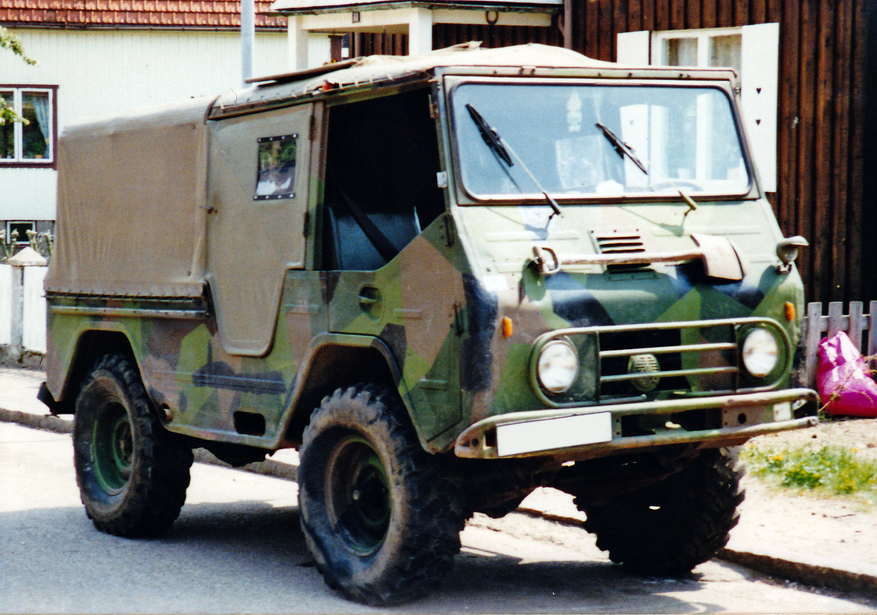 1963 Volvo L 3314 A "Valp" in Halmstad, Sweden. This car has chassis #1505 and was first registered in 1993, having been bought from the Swedish military. 65hp B18 engine.